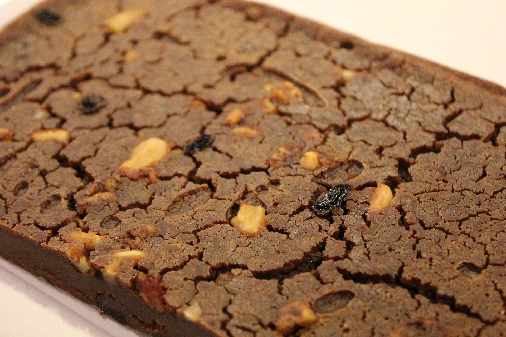 The castagnaccio is a cake made with chestnut flour, oil, honey and other ingredients typical of the Apennines of Piedmont, Liguria, Tuscany, Emilia-Romagna regions. It is also prepared in the island of Corsica.